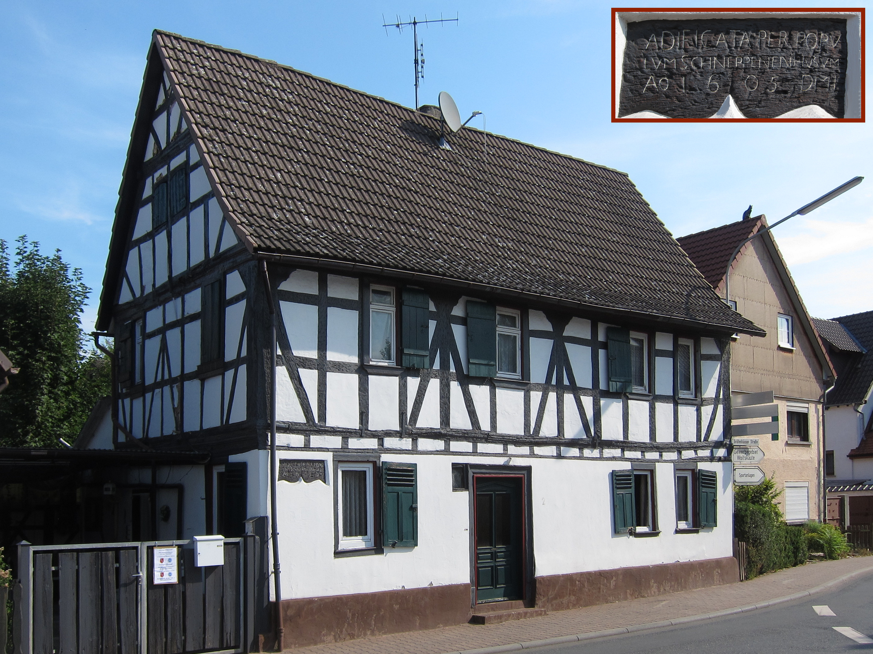 Former city hall of Schneppenhausen (Germany)